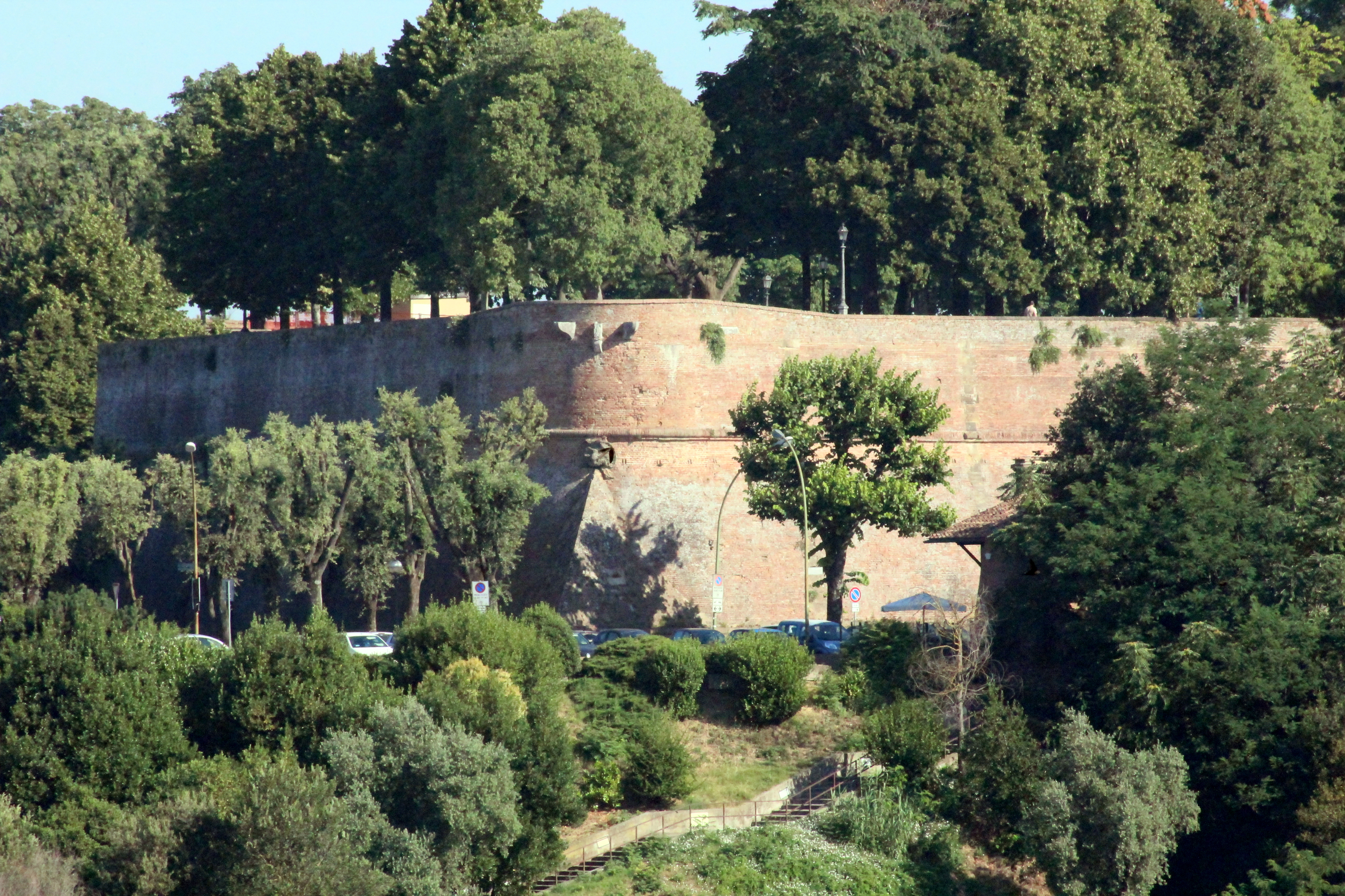 Panorama of the Fortress Fortezza Medicea in Siena, Tuscany, Italy